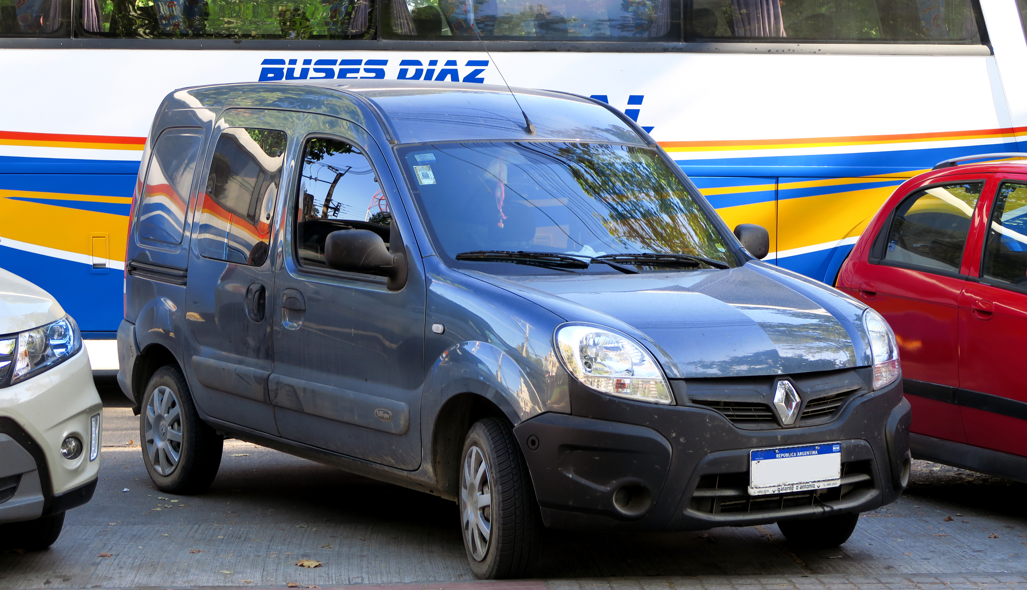 Renault Kangoo Express 1.6 Confort 2017